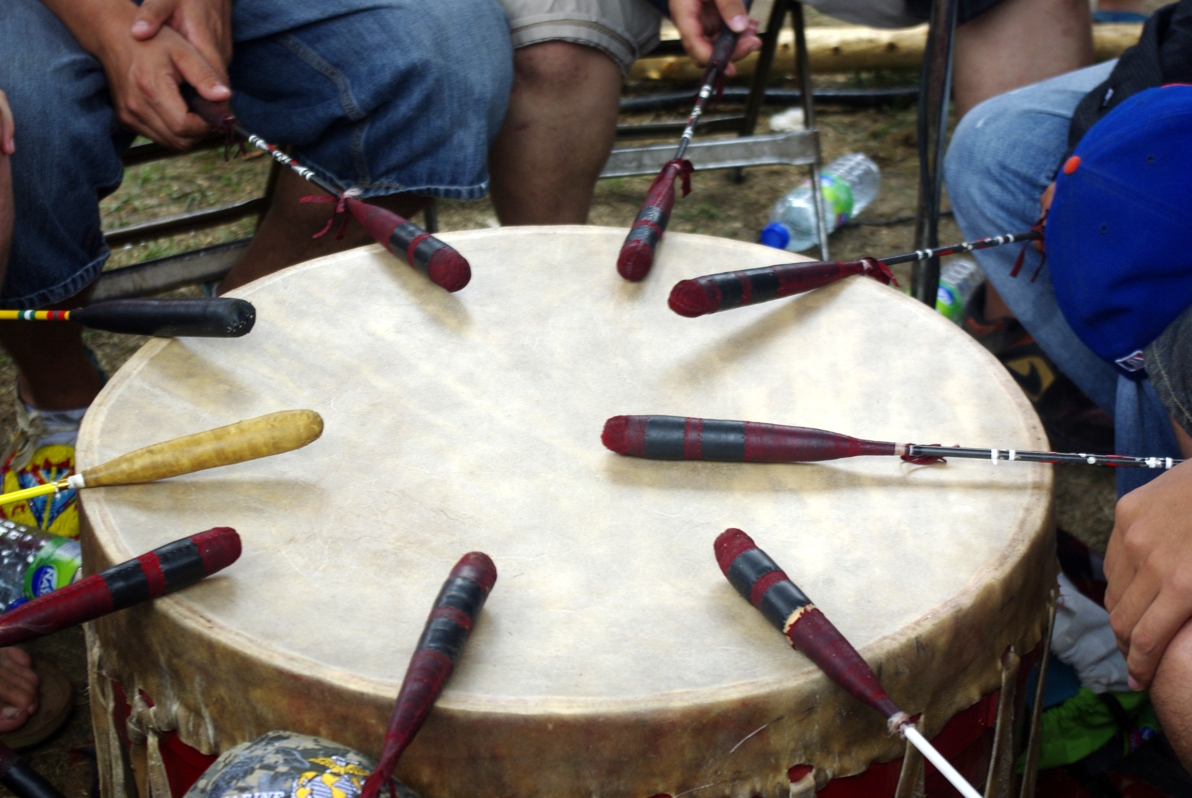 Atikamekw drum